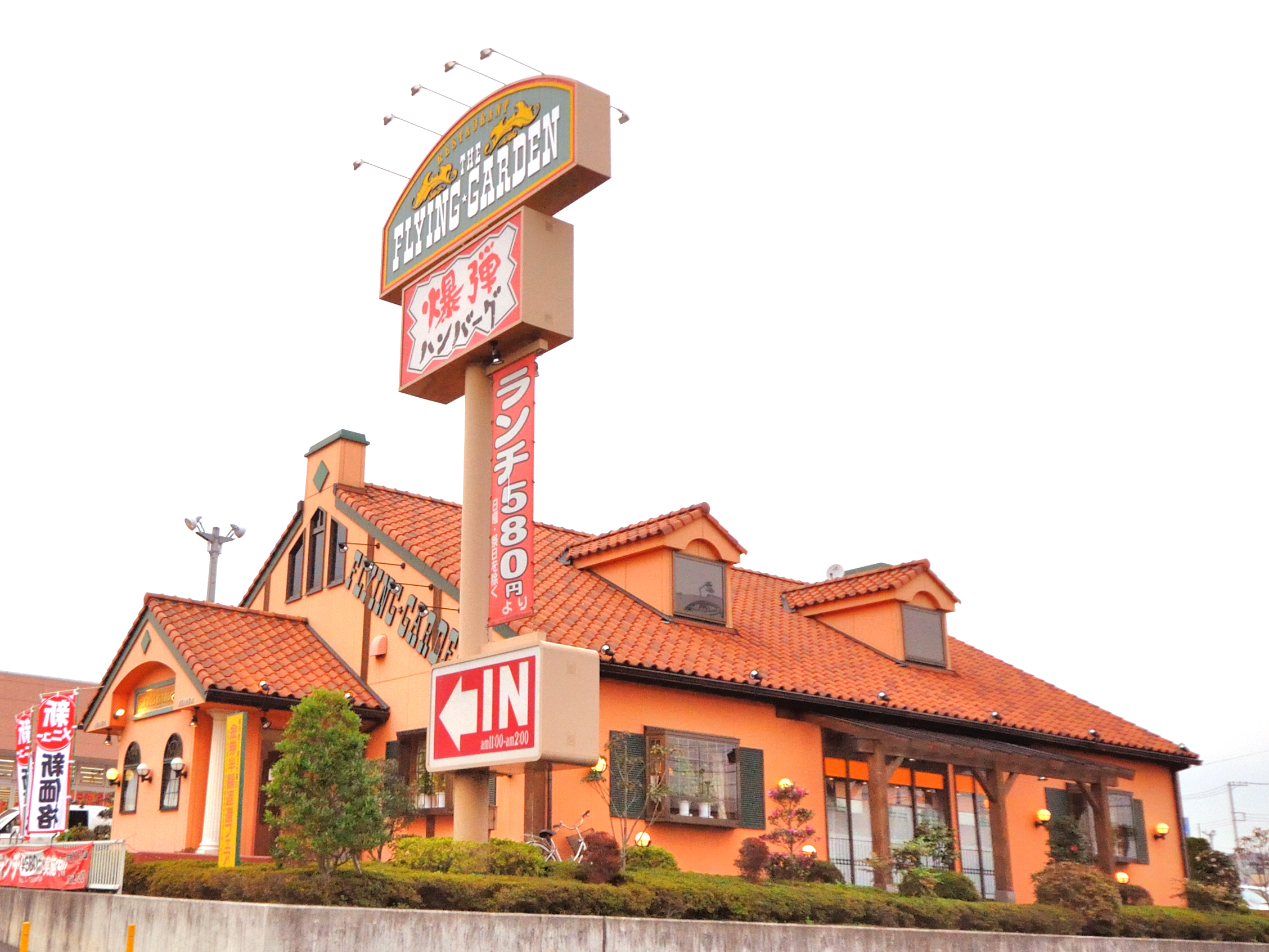 FlyingGarden Nodaunikusuten